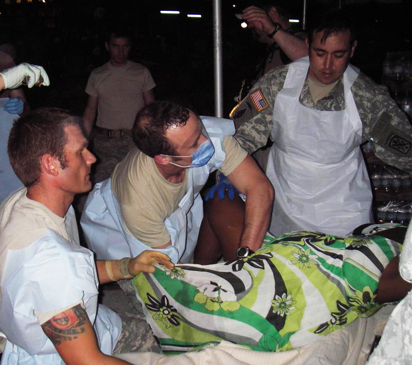 Soldiers from the 98th Civil Affairs Battalion, 95th Civil Affairs Brigade deliver a baby while deployed to Haiti in support of Operation Unified Response. These Soldiers hadn't been on the ground more than a few hours when they were called upon to respond to a medical emergency. Outside the U.S. Embassy gates, the team discovered a young Haitian woman in active labor. Medics Sgt. 1st Class John Dominguez and Staff Sgt. Daniel Orth delivered a healthy baby girl and provided care for the 29 year old mother. The mother said after that if it were a boy, she would have named him "Sam" for Uncle Sam. Since it was a girl, she named her "Samantha".